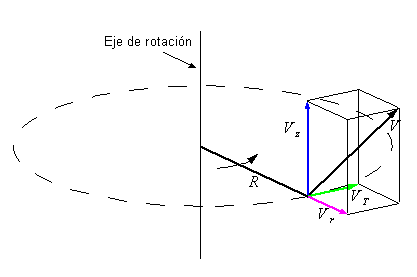 Components of a vector in cylindrical coordinates. Labels in Spanish. 2006